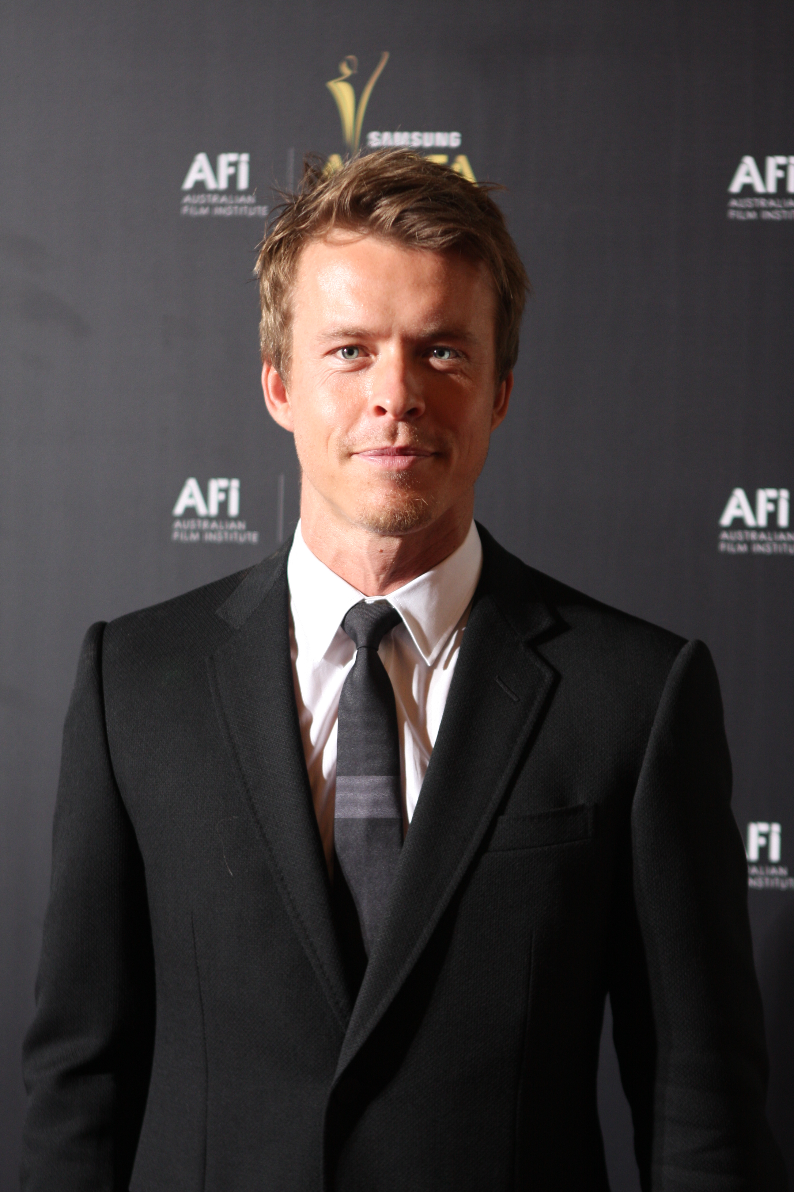 Tod Lasance, nominted for the 2011 AACTA Awards as Best Guest or Supporting Actor in Cloudstreet.